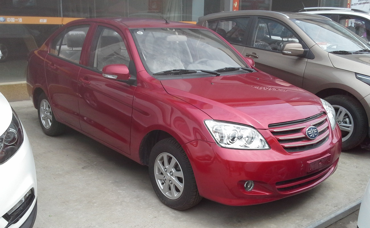 FAW Tianjin Xiali N5 facelift photographed in Xi'an, Shaanxi province, China.